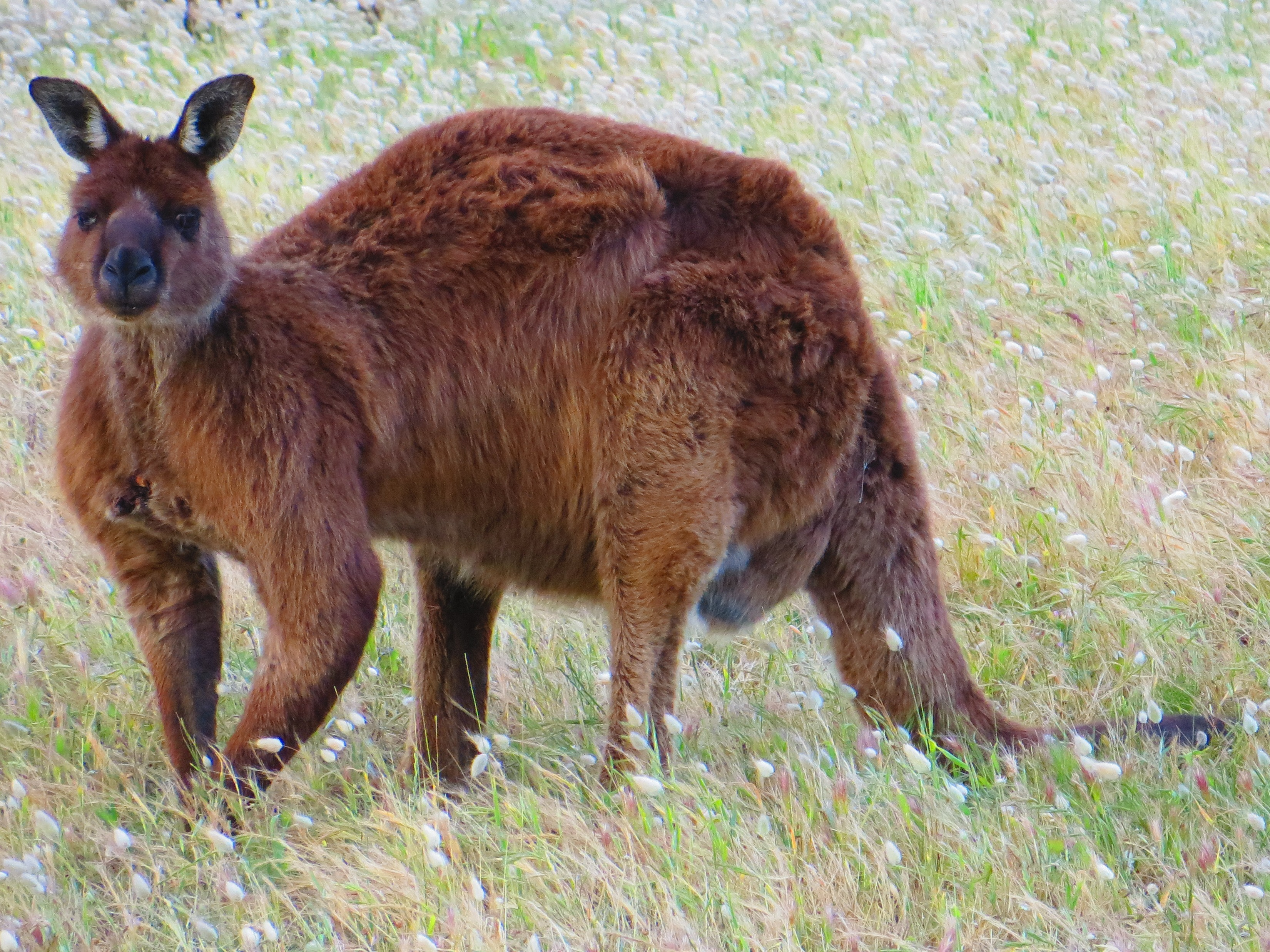 Kangaroo Island kangaroo (Macropus fuliginosus fuliginosus), Stokes Bay, Kangaroo Island, South Australia